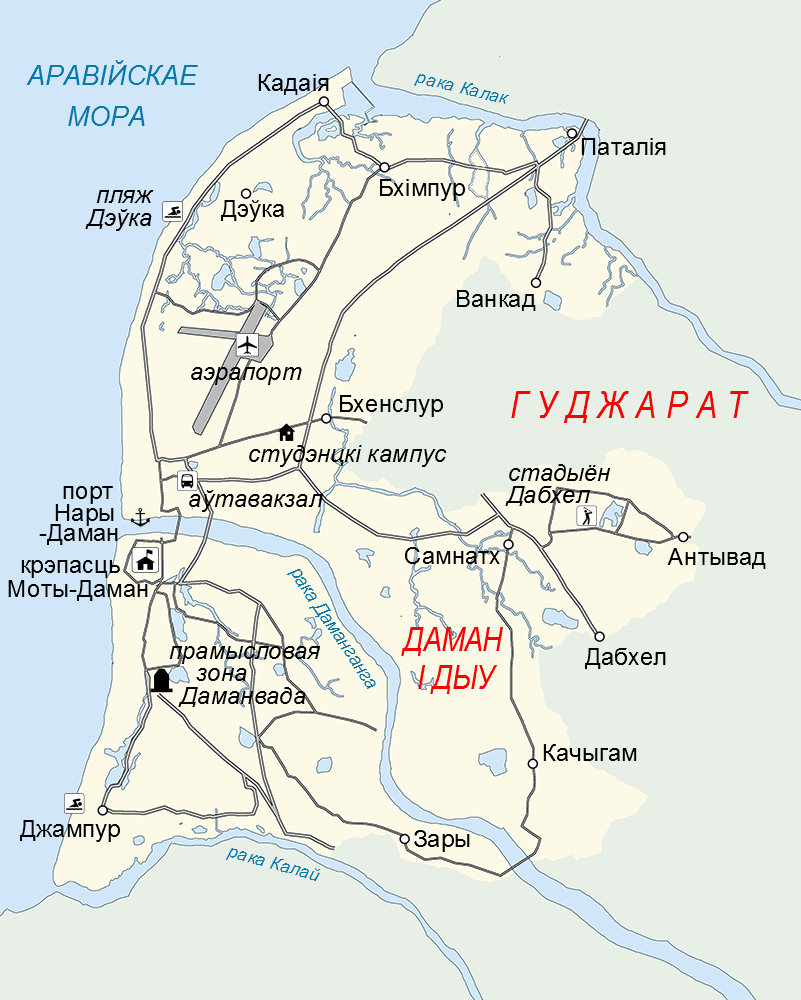 Map of Daman in Belarusian